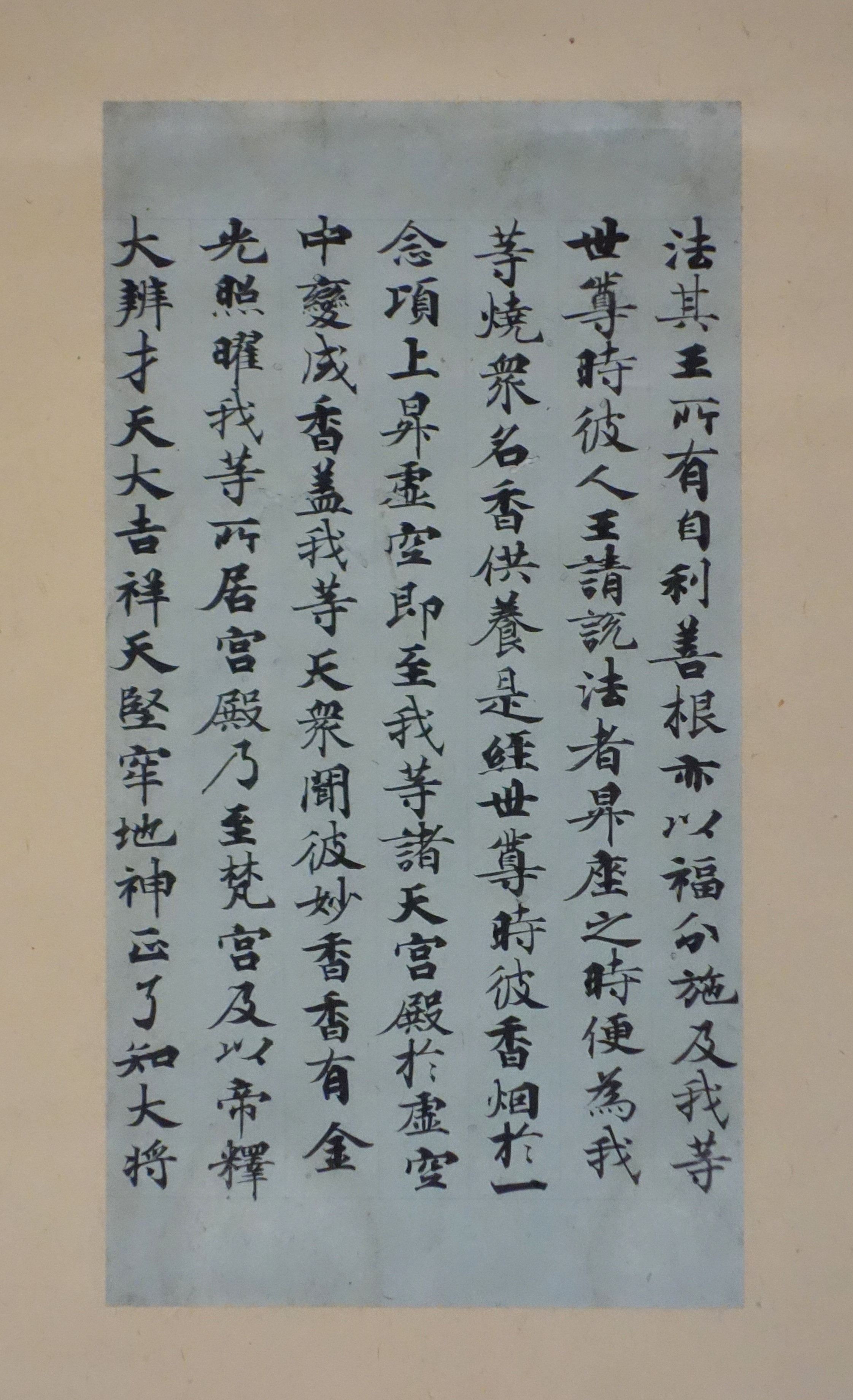 Exhibit in the Tokyo National Museum, Tokyo, Japan. This artwork is old enough so that it is in the public domain.